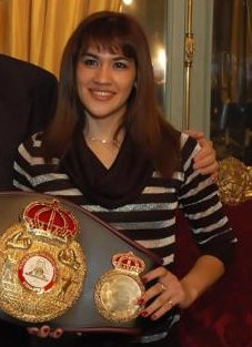 Tigresa Acuña. Argentine boxer. World champion